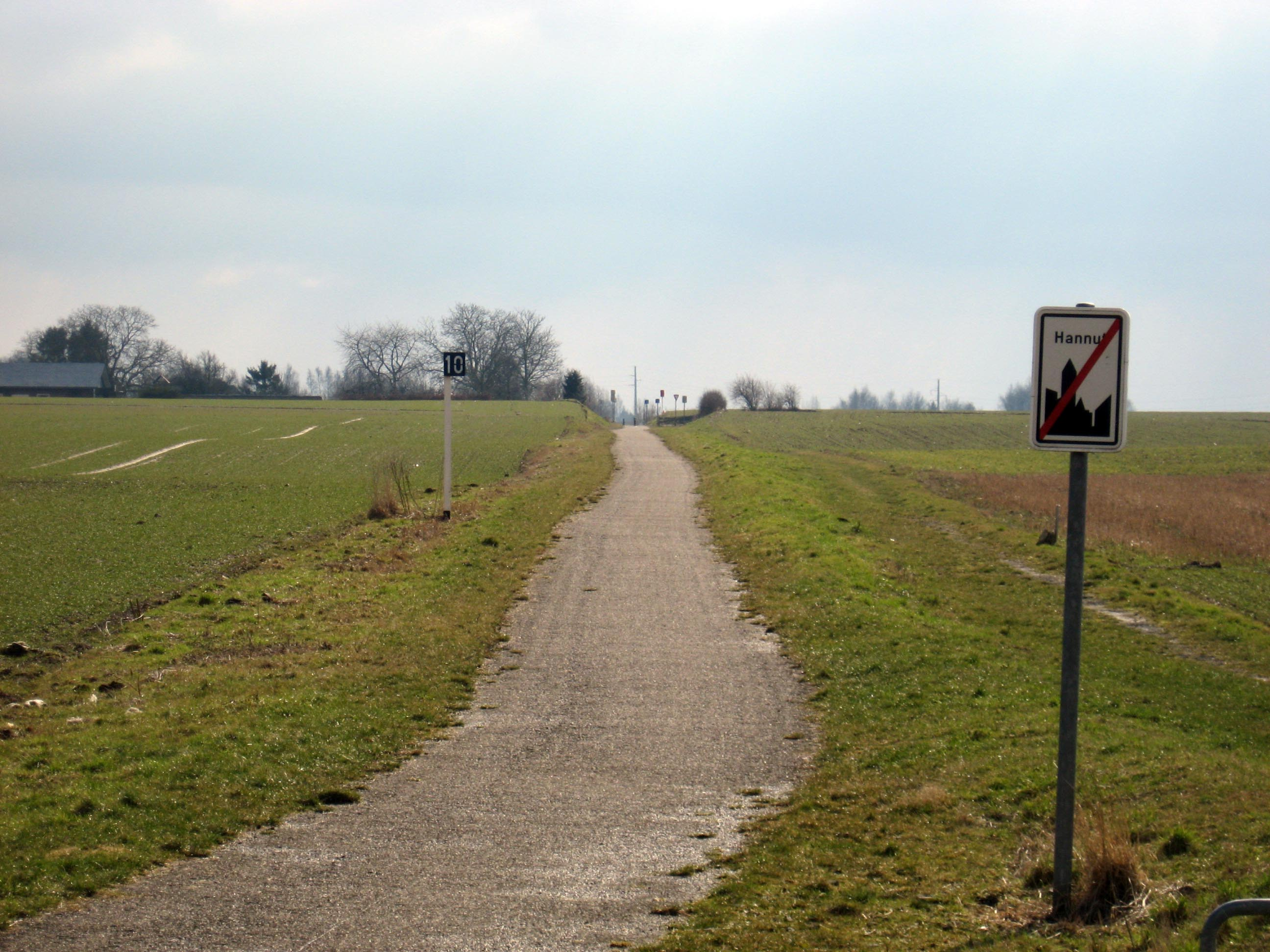 ex railwayline 127 converted into a bicycle path to the South of Hannut.